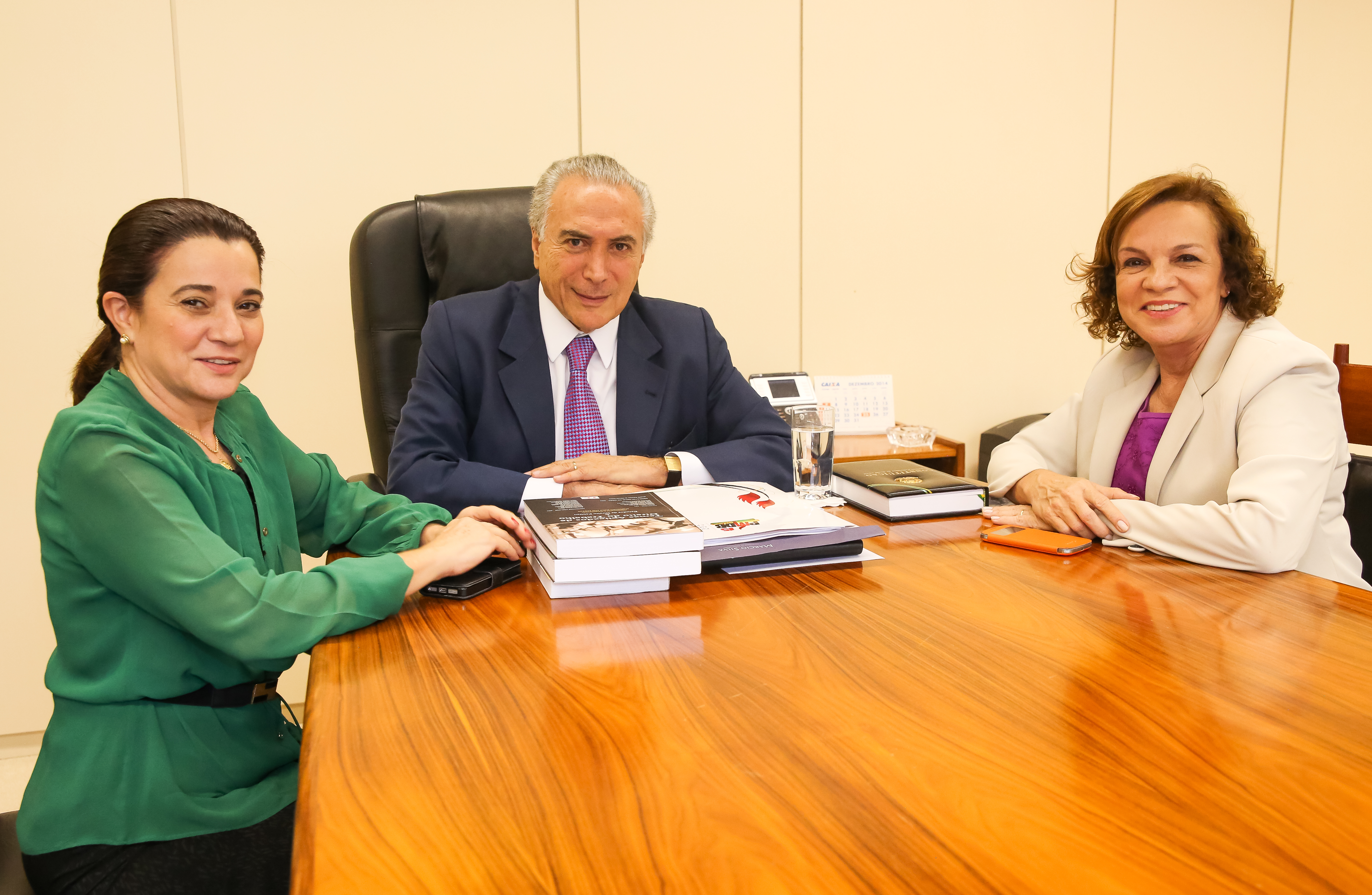 25-11-2014 - Deputada Marinha Raupp e deputada Fátima Pelaes em audiência com o vice-presidente Michel Temer